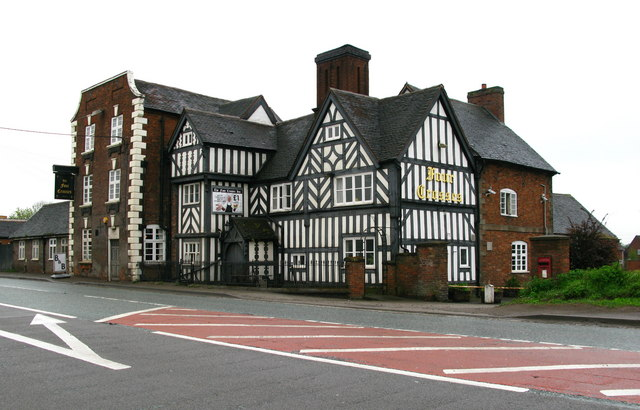 The Four Crosses, near to Four Crosses, Staffordshire, Great Britain. The heyday of the Four Crosses Inn seems to have been in the 18th century. Its location on the Watling Street made it an important stopping off point on the journey from London to Ireland. People travelling from London tended to sleep at Birmingham, dine at the Four Crosses and then sleep again at Newport, before going on to Chester the following day.